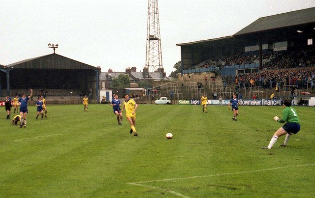 Carlisle United 2 - 1 Oxford United. At Brunton Park on september 26th, 1981. Trevor Swinbourne is the goalkeeper.